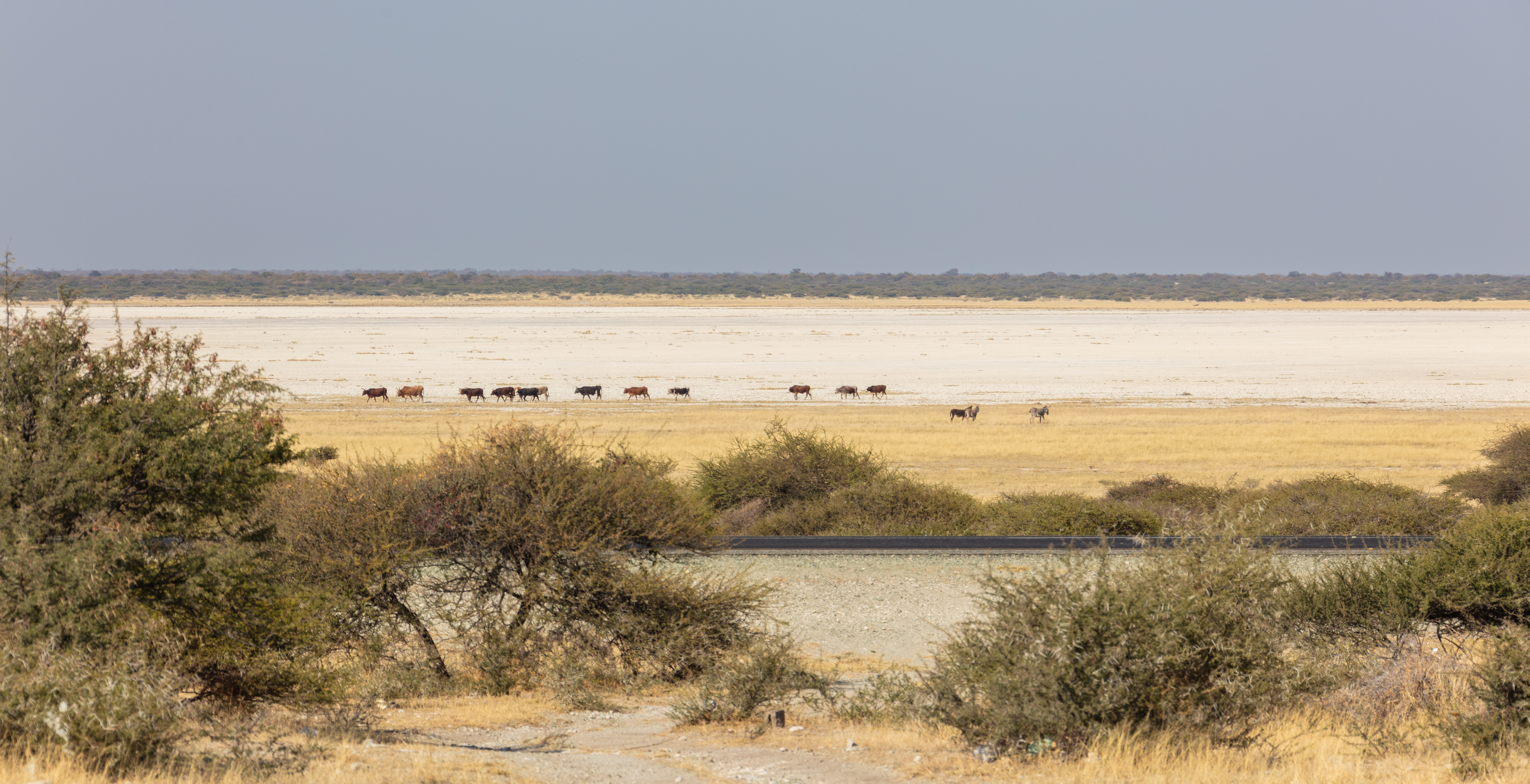 Cows in Makgadikgadi Pans National Park, Botswana